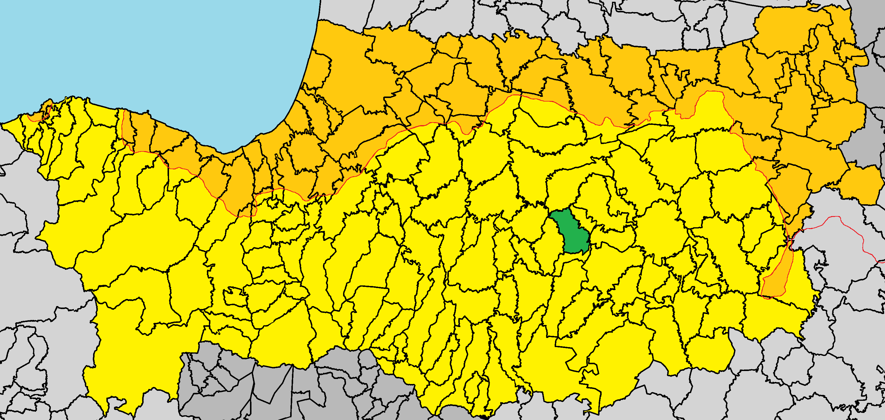 Ergates in Nicosia District.